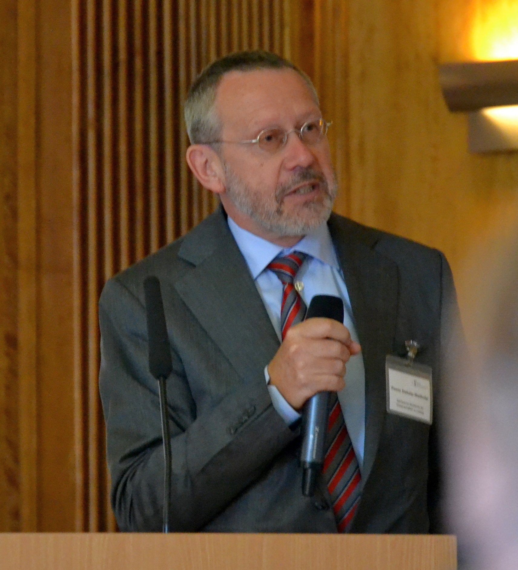 Academies day 2015 at the Berlin-Brandenburg Academy of Science in Berlin; Theme: "Old world today: Perspectives and threats". Image:Philosopher and president of the Saxonian Academy of Science, Professor Pirmin Stekeler-Weithofer.